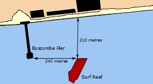 Location diagram of surf reef